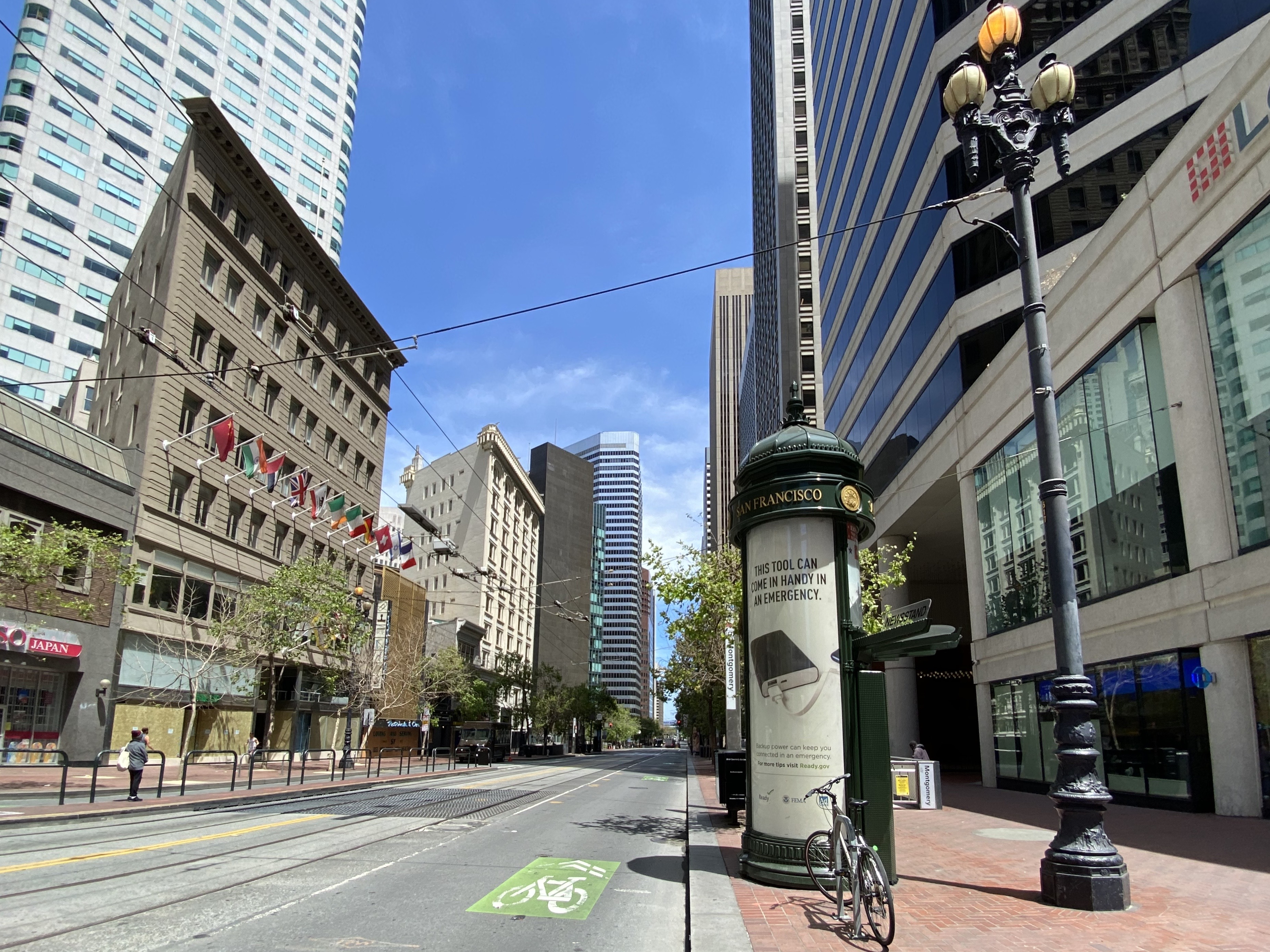 An empty Market Street at Montgomery Street in San Francisco’s Financial District on April 27, 2020, under the COVID-19 shelter-in-place order.